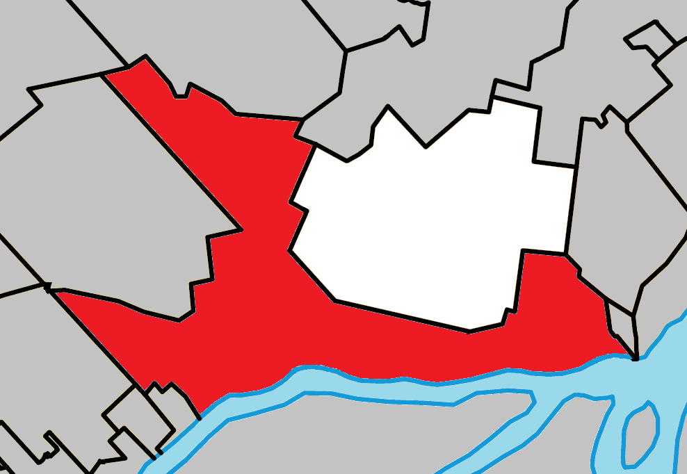 Location of Terrebonne, Quebec within Les Moulins Regional County Municipality.